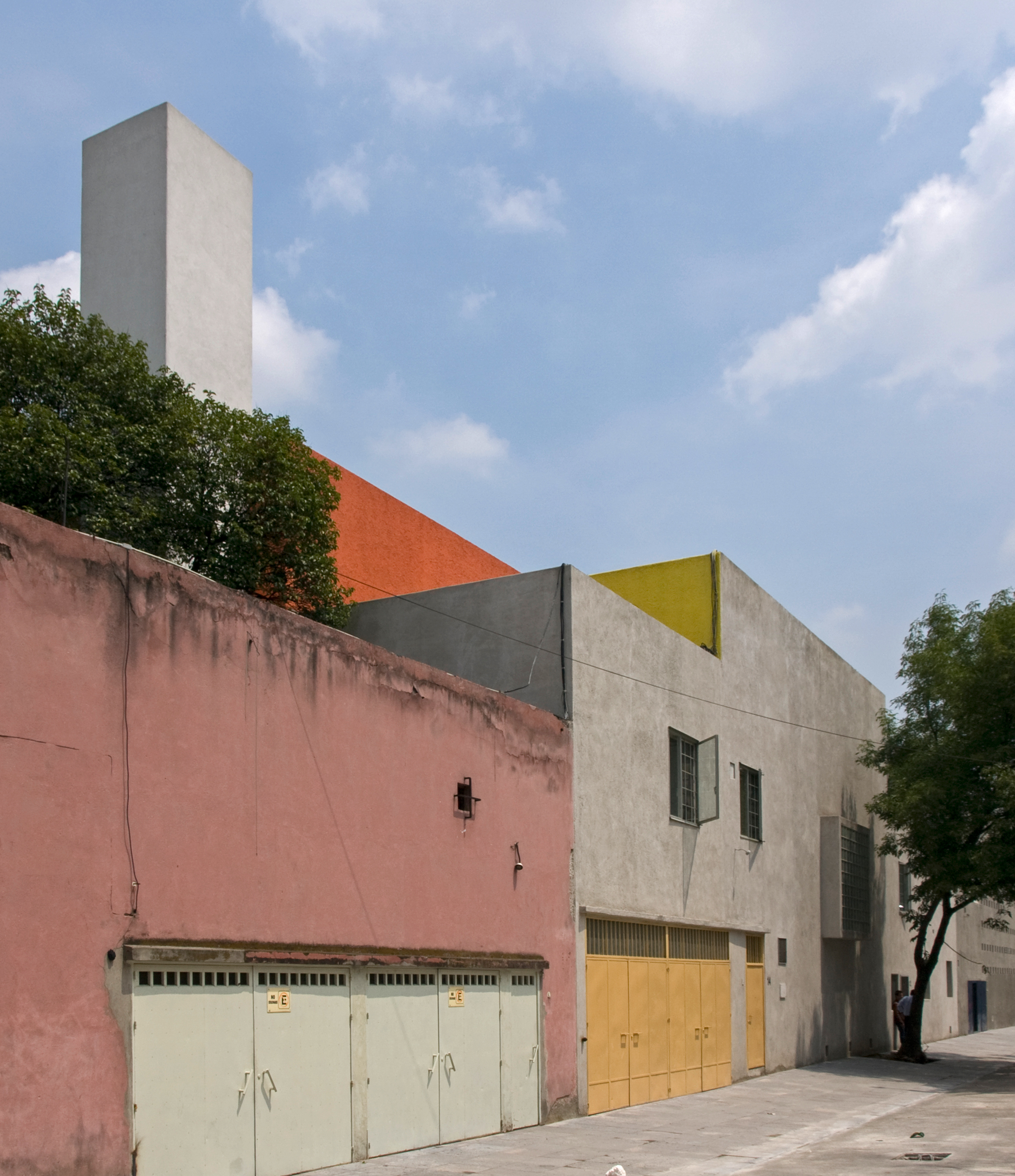 Luis Barragán House and Studio, the exterior view